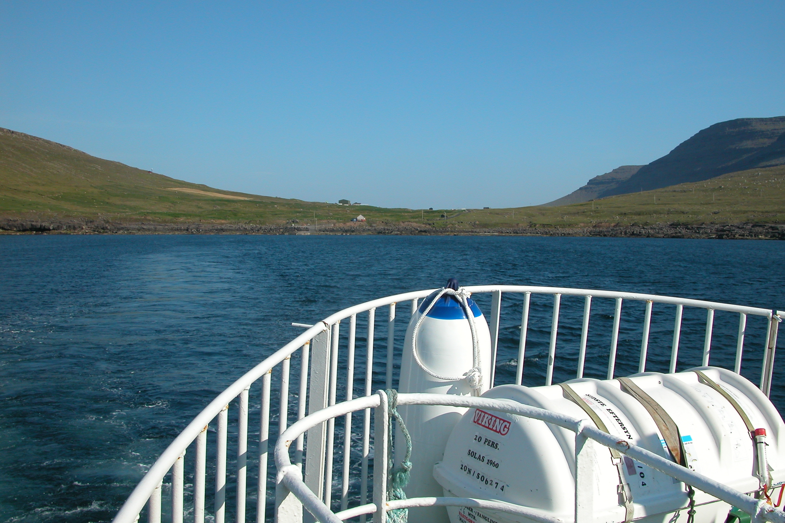 Postboat Másin landing in Svínoy, Faroe Islands.